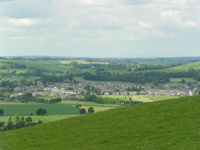 Biggar from Hartree Hills. Taken from the western slopes of the Hartree Hills looking north towards Biggar.